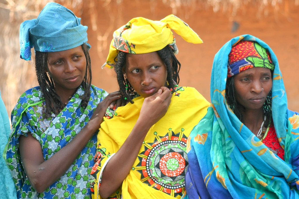 Original caption: In Paoua, women communities receive help from the Danish Refugee Council to set up small businesses. Additional information: The ethnic group depicted is known as Fula, Fulani, Fulbe, Peul, or Fulaw, depending on the language.